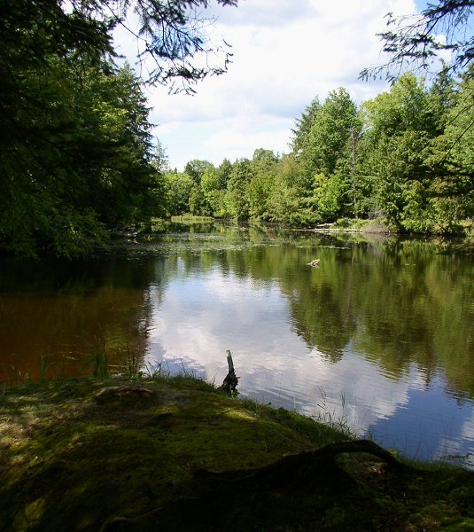 Jean Brunet Nature Trail: Brunet Island State Park, WI, USA